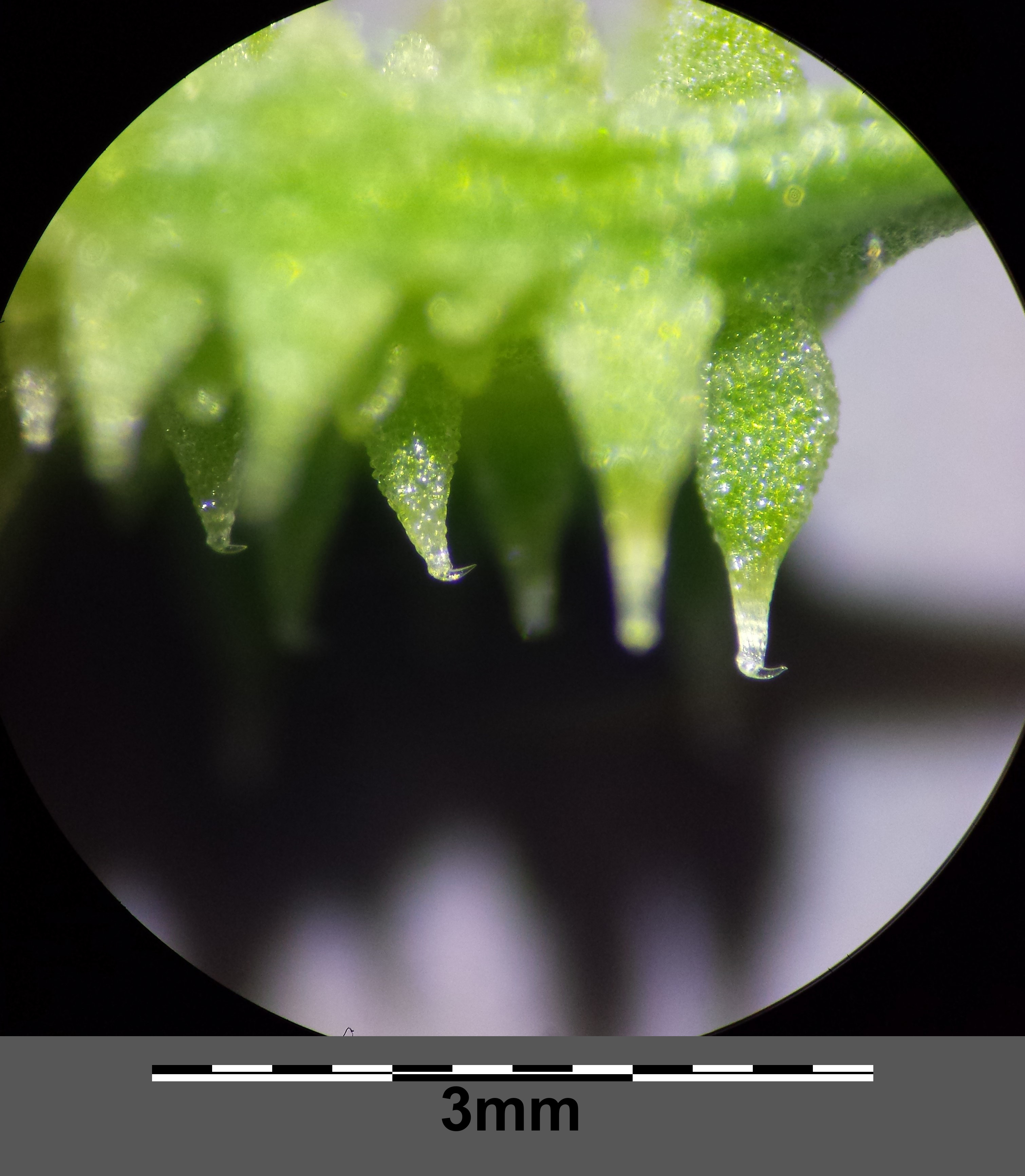 Spiny nutlet (detail) Taxonym: Ranunculus arvensis ss Fischer et al. EfÖLS 2008 ISBN 978-3-85474-187-9 Location: near Großrußbach, district Korneuburg, Lower Austria - ca. 290 m a.s.l. Habitat: border of a field